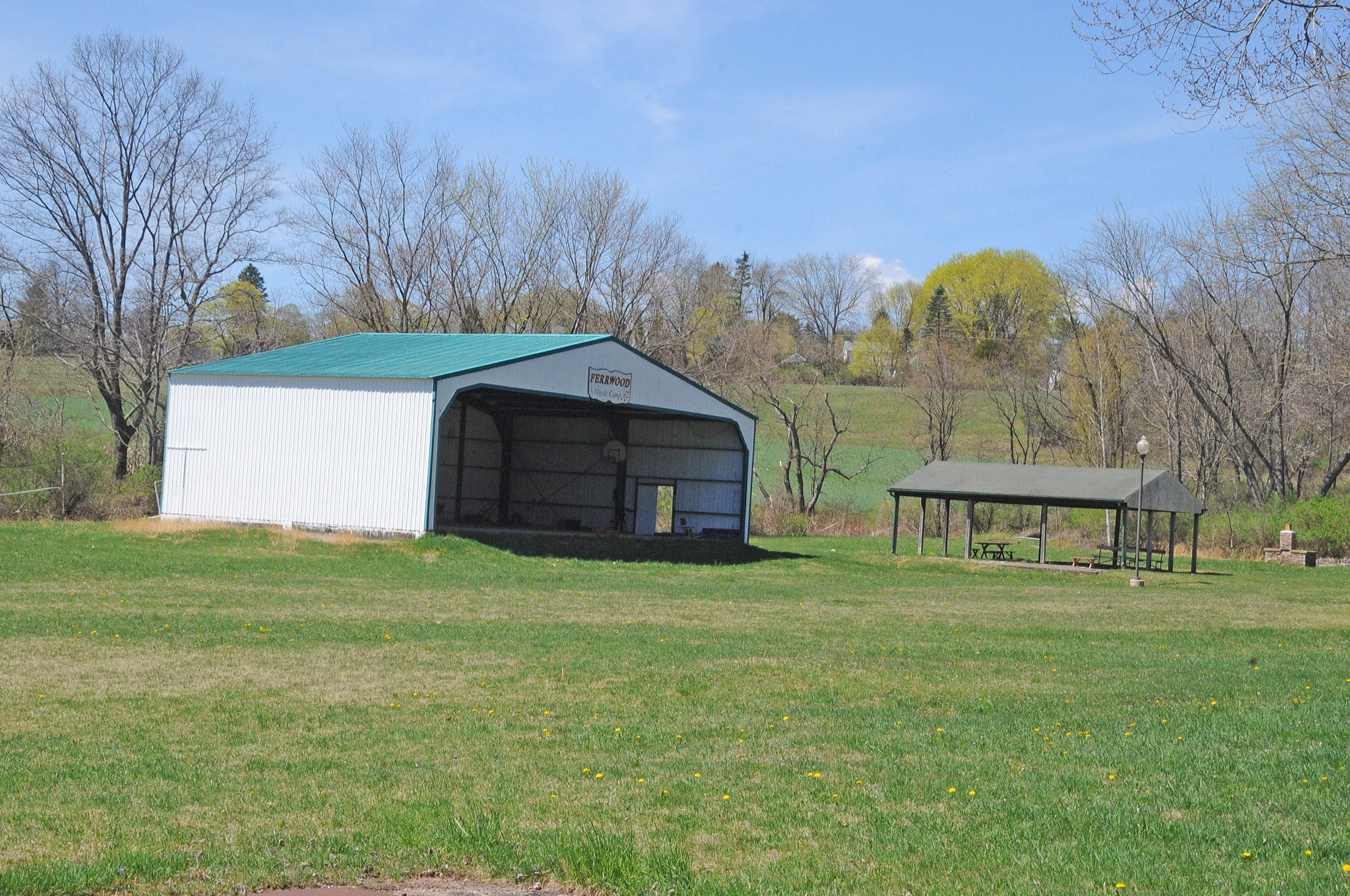 BUILDING LOOKS LIKE A BARN BUT MAY BE THE STAGE FOR MUSIC PRESENATIONS SINCE IT HAS A SIGN READING "FERRWOOD MUSIC CAMP" OVER THE ENTRANCE